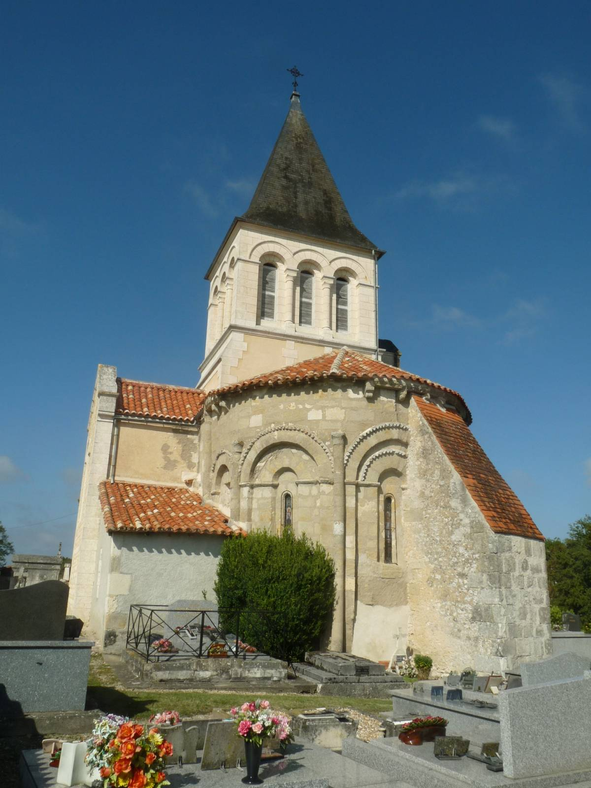 church